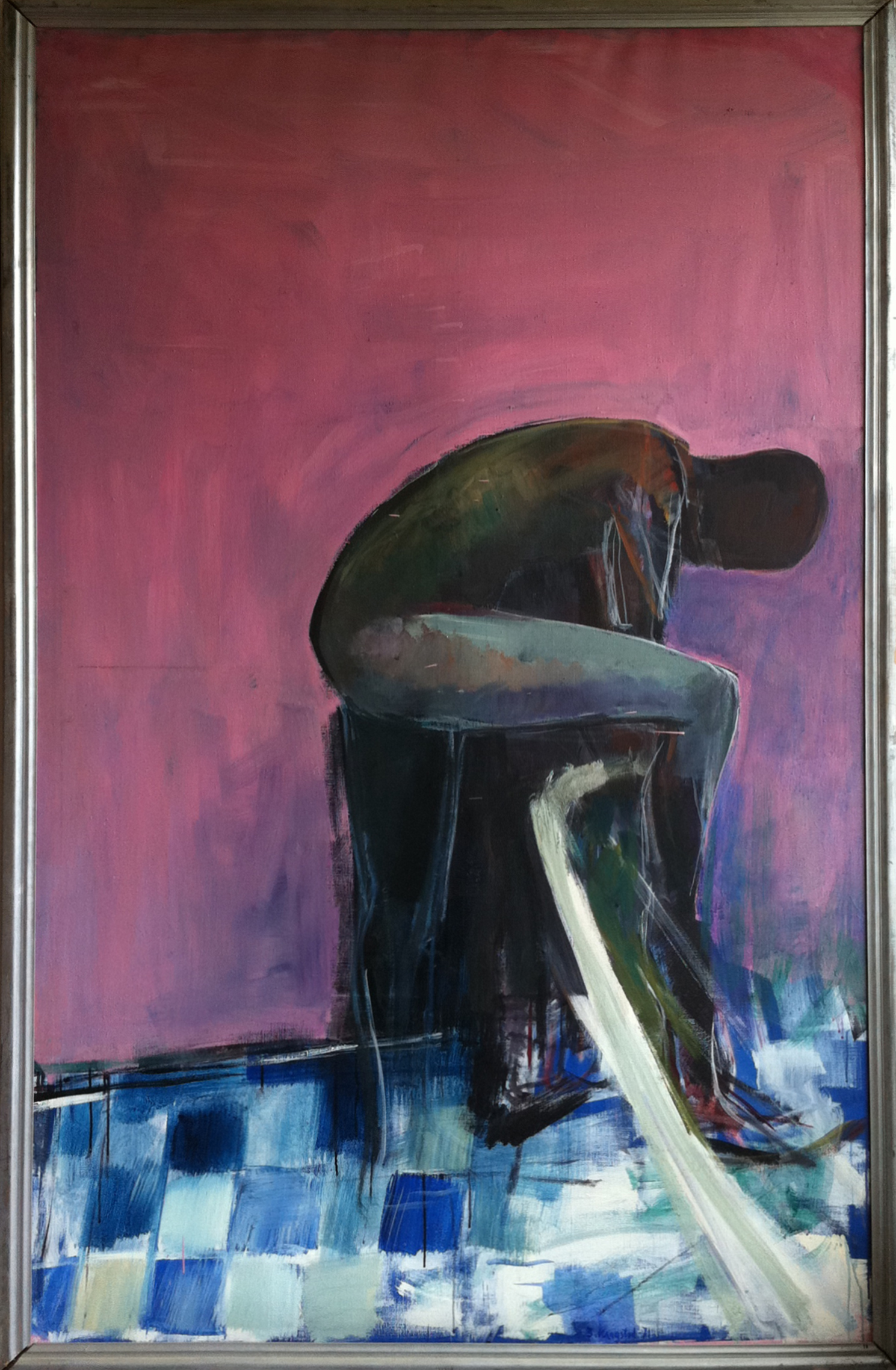 (painting of bathing)